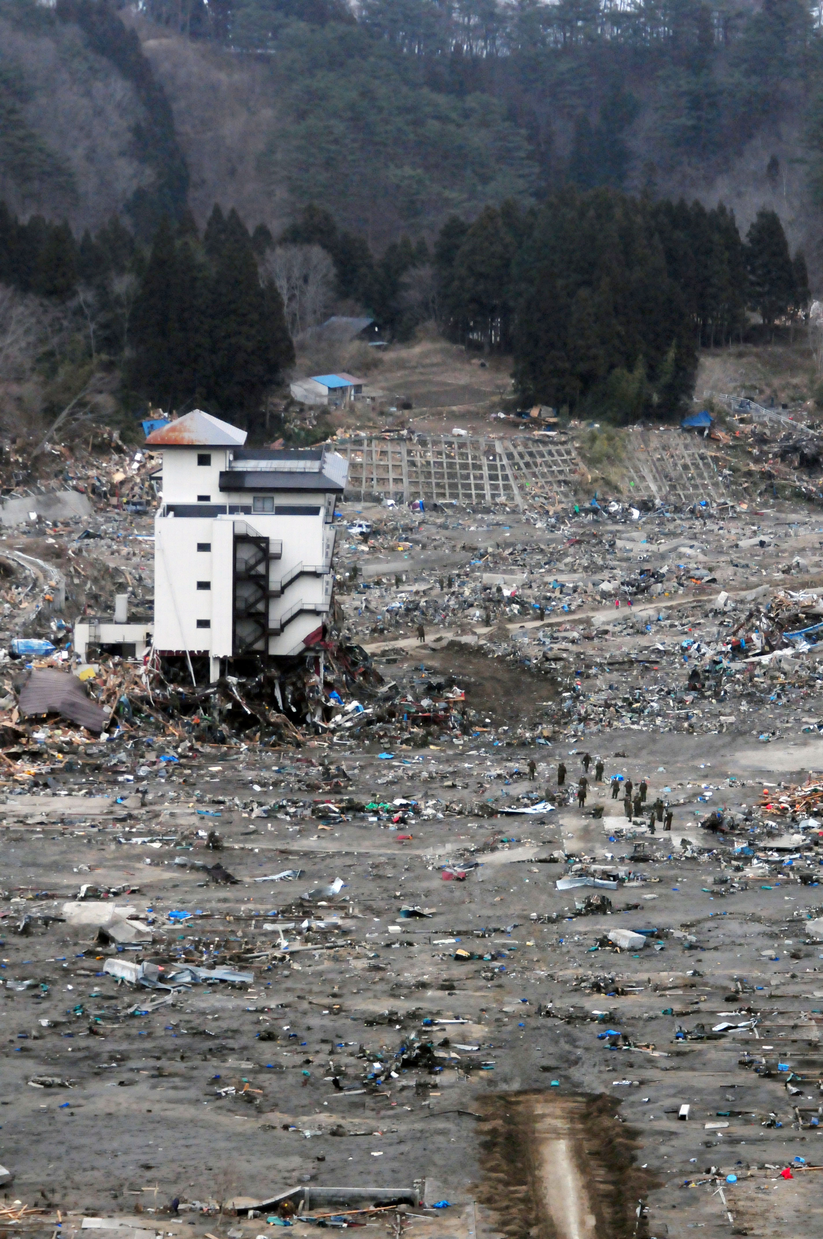 Taro, Miyako, Iwate Prefecture, Japan (March 15, 2011) -- A Japanese search and rescue team searches the rubble near a high-rise building after a 9.0 magnitude earthquake and subsequent tsunami devastated the area. Ships and aircraft from the Ronald Reagan Carrier Strike Group are conducting search and rescue operations and re-supply missions as directed in support of Operation Tomodachi throughout northern Japan. (U.S. Navy photo by Mass Communication Specialist 3rd Class Alexander Tidd/Released) This image is taken a picture of Japanese rescue team that does search and rescue activity in Taro area, Miyako, Iwate, Japan. The high-rise building is TAROU KANKOU HOTEL (たろう観光ホテル).[1][2]